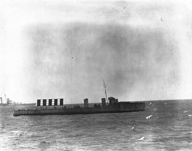 HMAS TORRENS (I) served in the Royal Australian Navy 1916-1926 and saw war service in Malayan, Mediterranean and Adriatic waters before returning to home duties in 1919. From 1920 to 1926 TORRENS served as a training platform for the Reserves. On 24 November 1930 the decommissioned destroyer was used for gunnery target practice off Sydney. This photo is part of the Australian National Maritime Museum’s Samuel J. Hood Studio Collection. Sam Hood (1870-1956) was a Sydney photographer with a passion for ships. His 72-year career spanned the romantic age of sail and two world wars. The photos in the collection were taken mainly in Sydney and Newcastle during the first half of the 20th century. The ANMM undertakes research and accepts public comments that enhance the information we hold about images in our collection. This record has been updated accordingly. Photographer: Samuel J. Hood Studio Collection Object no. 00024250